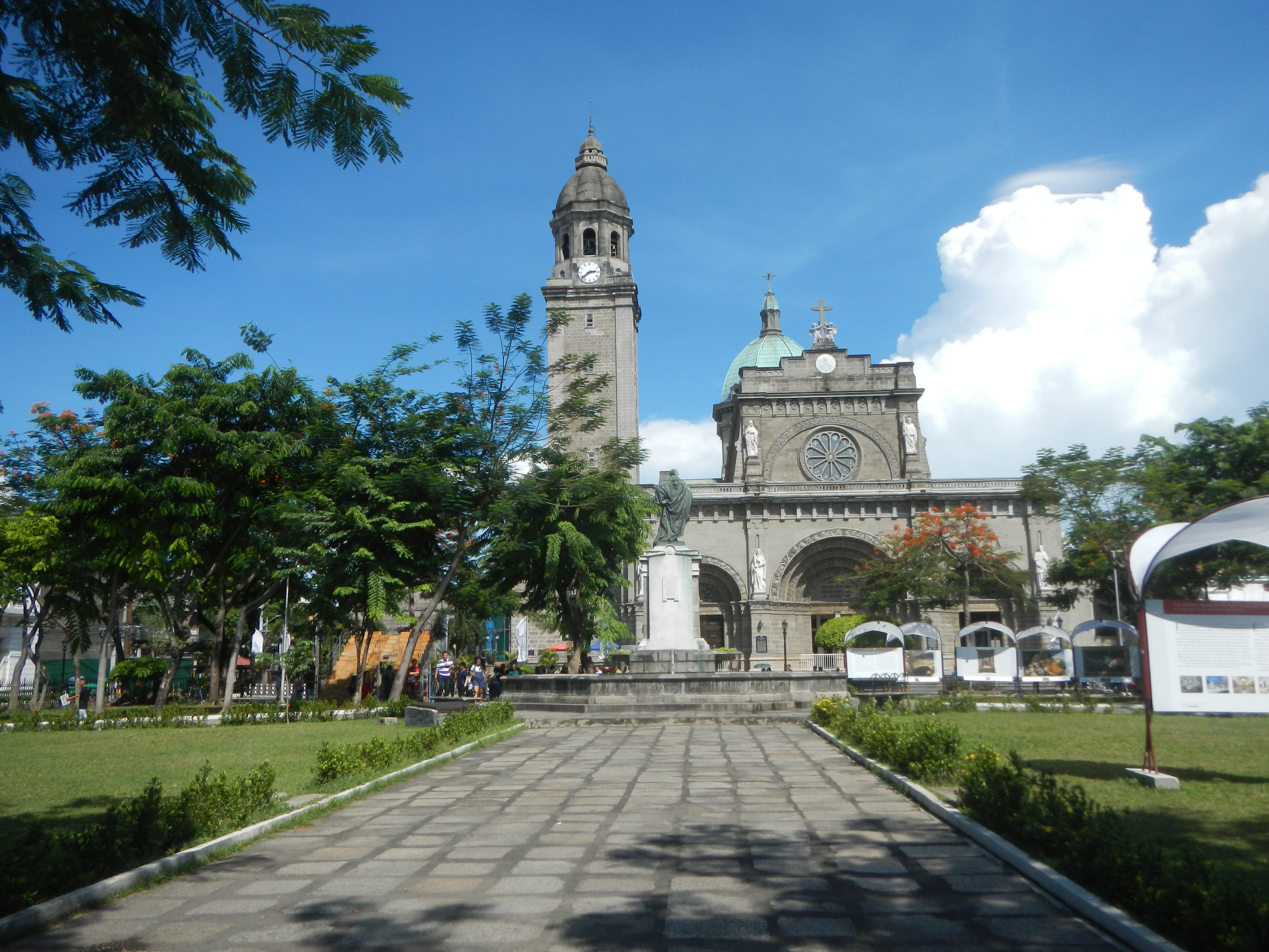 Exterior of the Ayuntamiento de Manila (Casas Consistoriales), Ayuntamiento de Manila Bureau of the Treasury, Intramuros 1599, City Hall of Manila Destroyed in the Battle of 1945 now Bureau of the Treasury Casa Consistoriales (Ayuntamiento), Intramuros, 1735, now Bureau of Treasury (BTr), Department of Finance (Philippines) in front of the Plaza de Roma, b) Plaza de Roma, Intramuros Exhibit - 54 Masterpieces of The Prado Museum, History and Collections Museo del Prado c) The Flame Trees (Delonix Regia) Plaza de Roma, Intramuros King Charles IV of Spain monument, Intramuros Immaculada of the Manila Cathedral Manila Cathedral 8 Great Churches of Intramuros Intramuros landmarks List of Cultural Properties of the Philippines in Metro Manila Intramuros, in Legislative districts of Manila Political subdivision, Barangays 654, 656, 657 and 658, District V, Intramuros, City of Manila; (Note: Judge Florentino Floro, the owner, to repeat, Donor Florentino Floro of all these photos hereby donate gratuitously, freely and unconditionally all these photos to and for Wikimedia Commons, exclusively, for public use of the public domain, and again without any condition whatsoever).